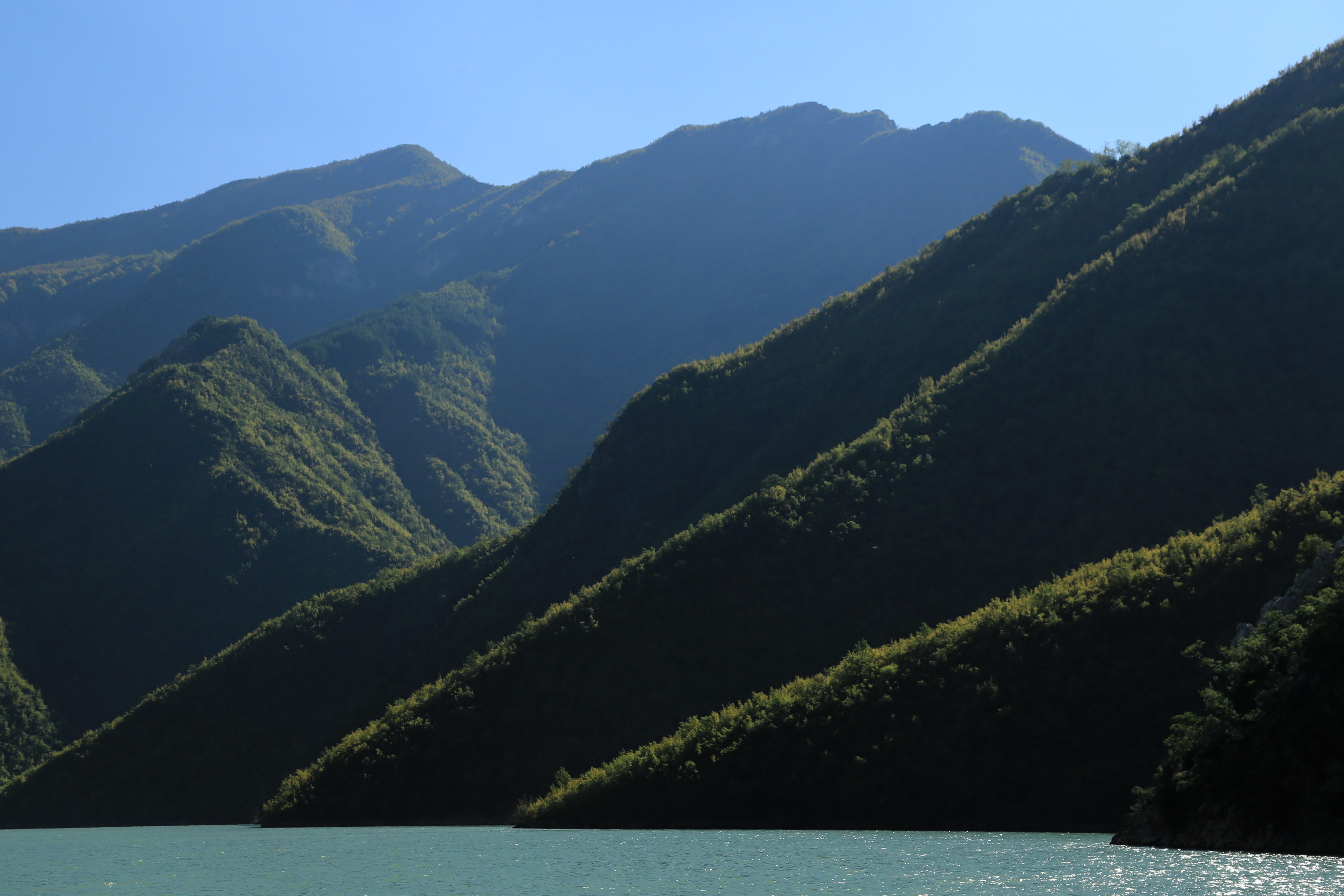 Lake Komani, Albania. Shot from the passenger ferry.